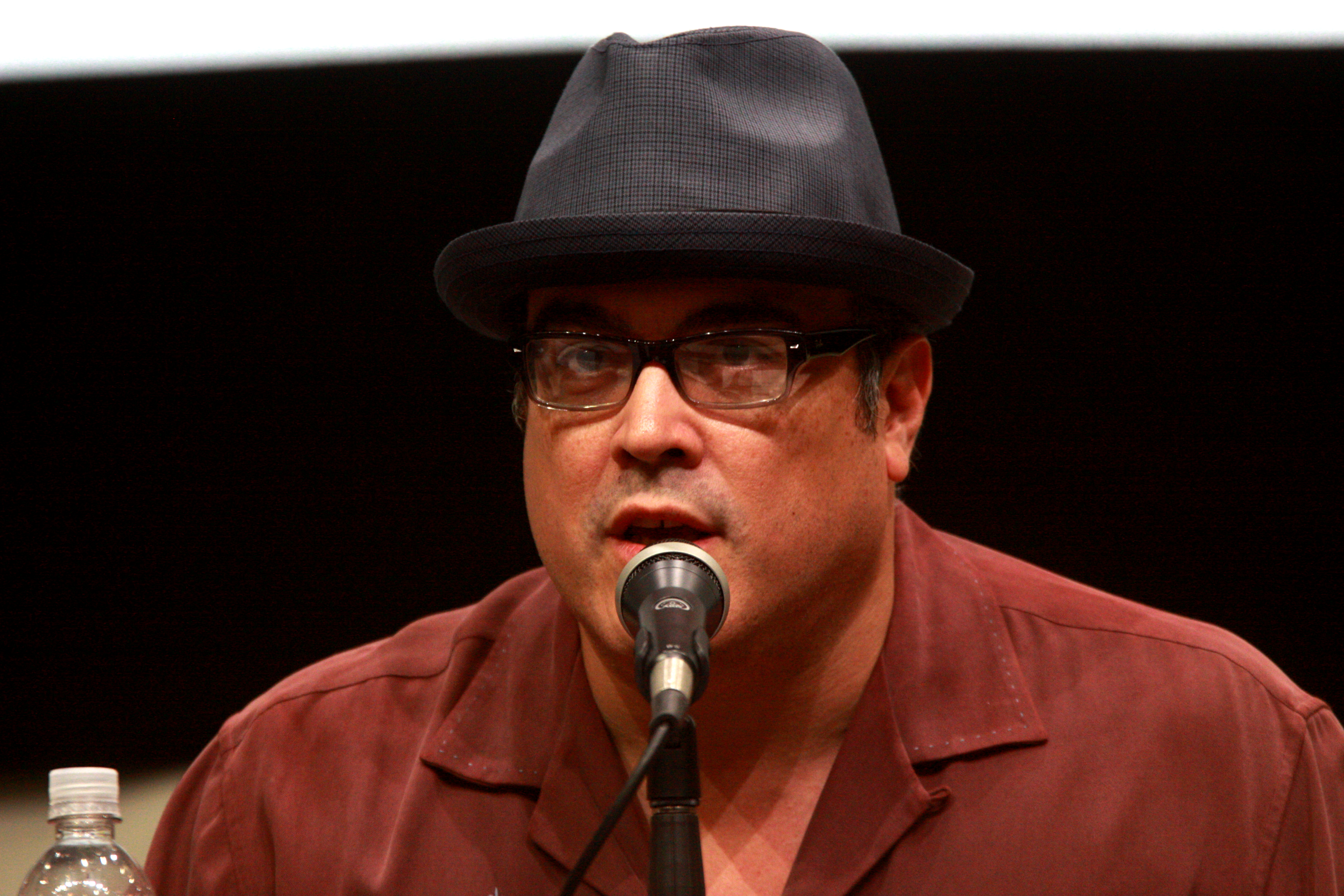 David Zayas speaking at the 2013 San Diego Comic Con International, for "Dexter", at the San Diego Convention Center in San Diego, California.